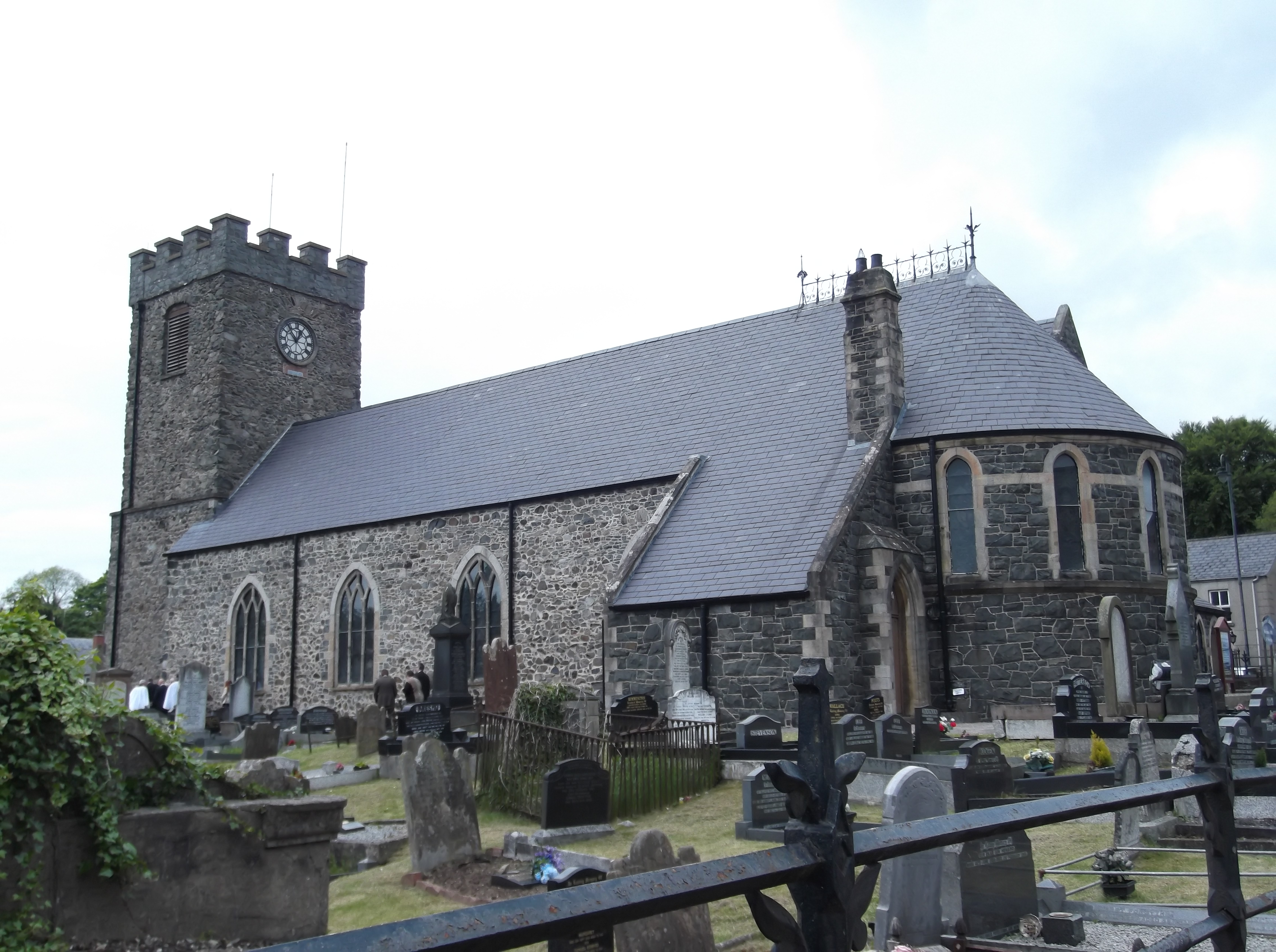 Photograph of The Cathedral Church of Christ the Redeemer, Dromore, Co. Down, Northern Ireland